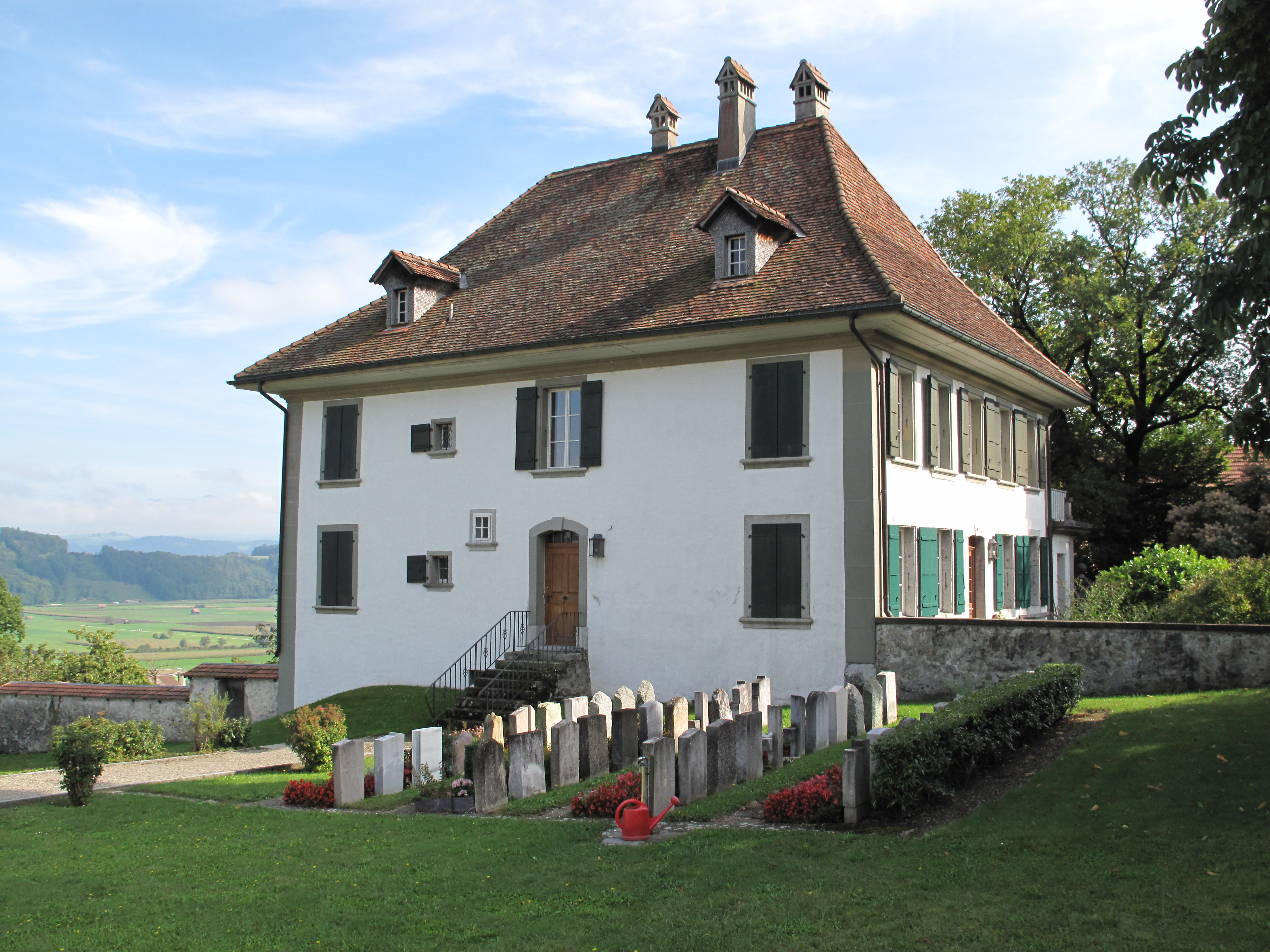 Thurnen, Pfarrhaus